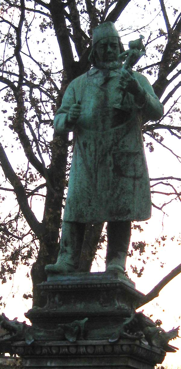 Monument of Jacob Daniel Burgschmiet in Nuremberg